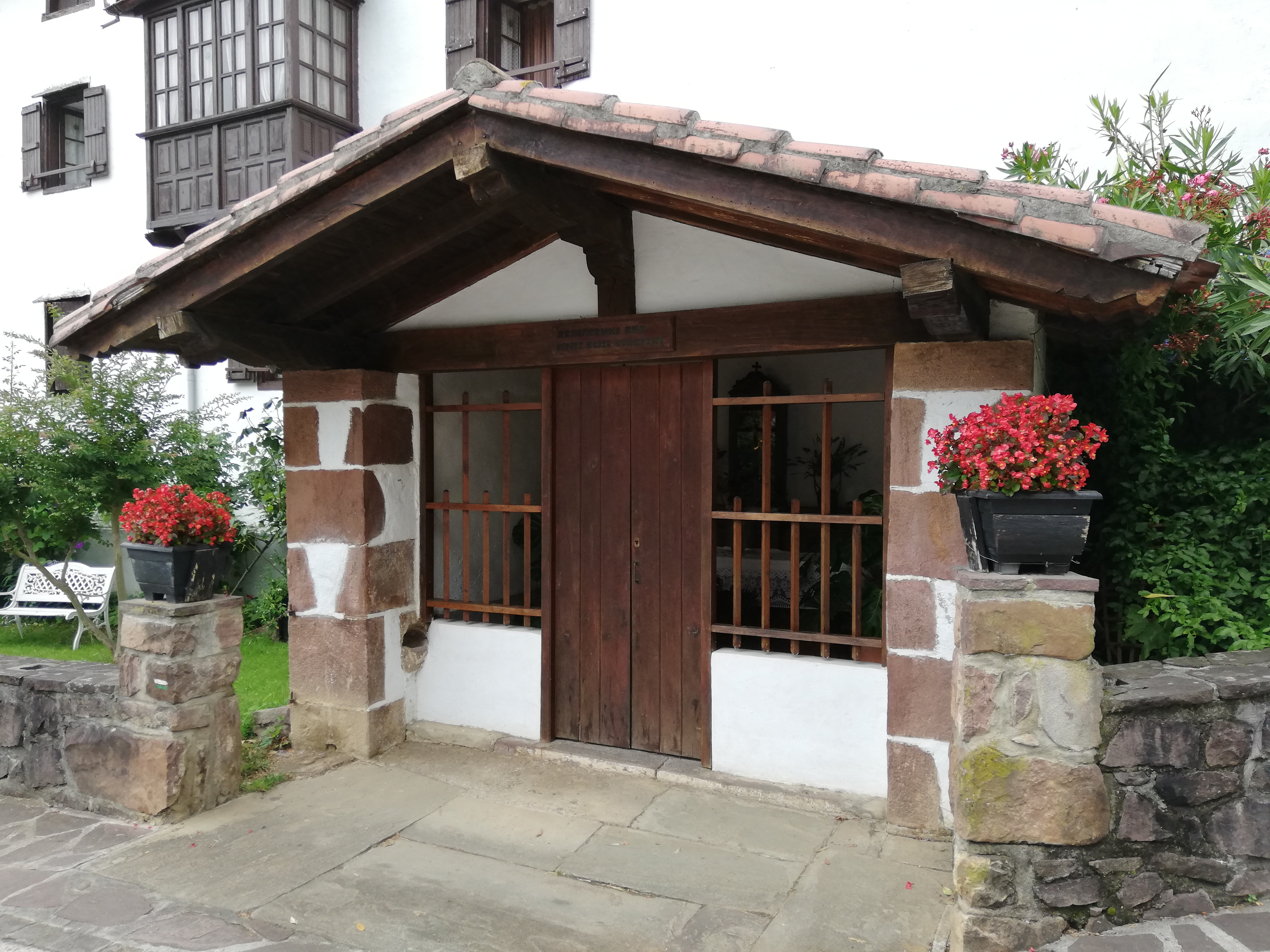 It's in the middle of town